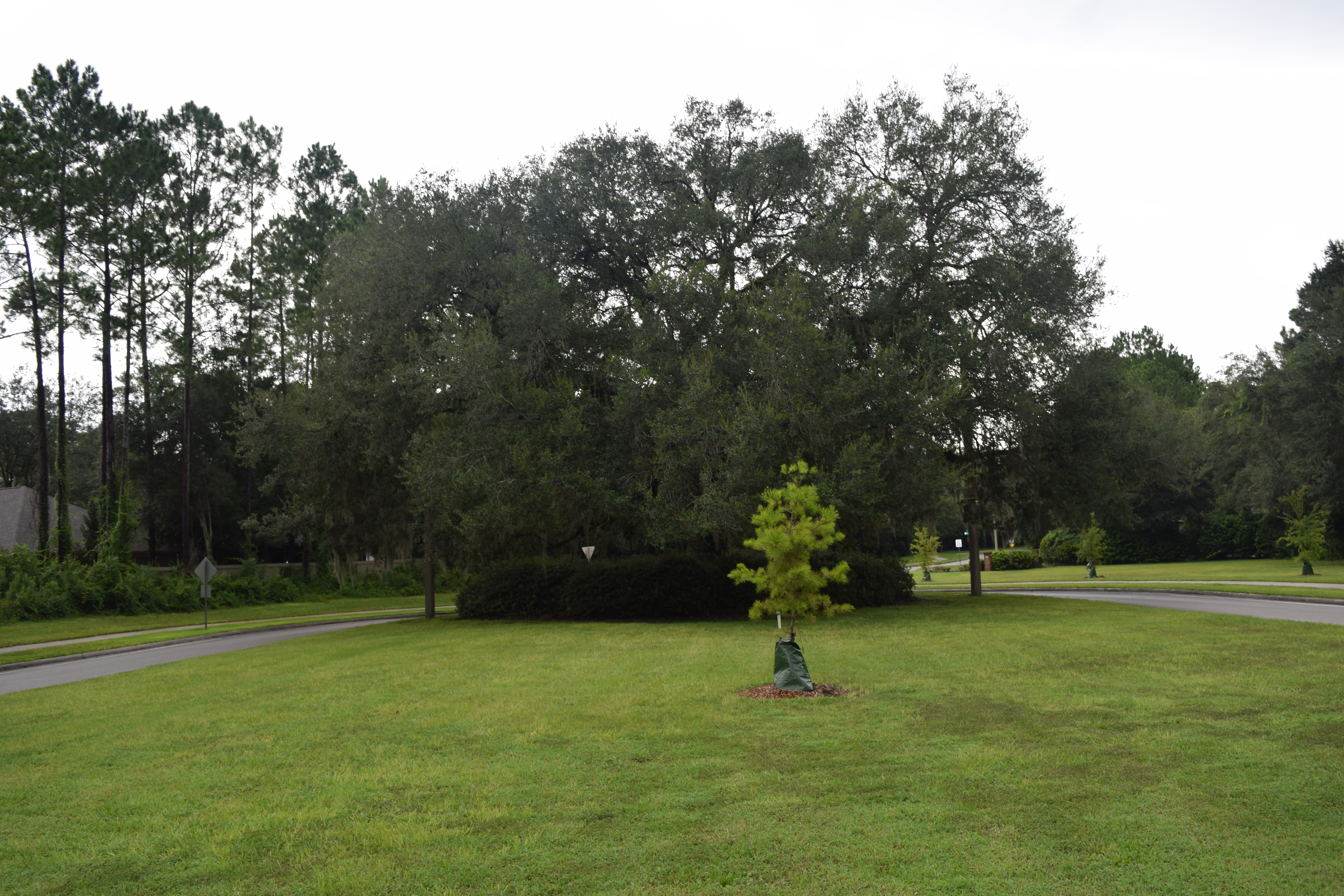 Picture of some trees in a suburban devolpment.